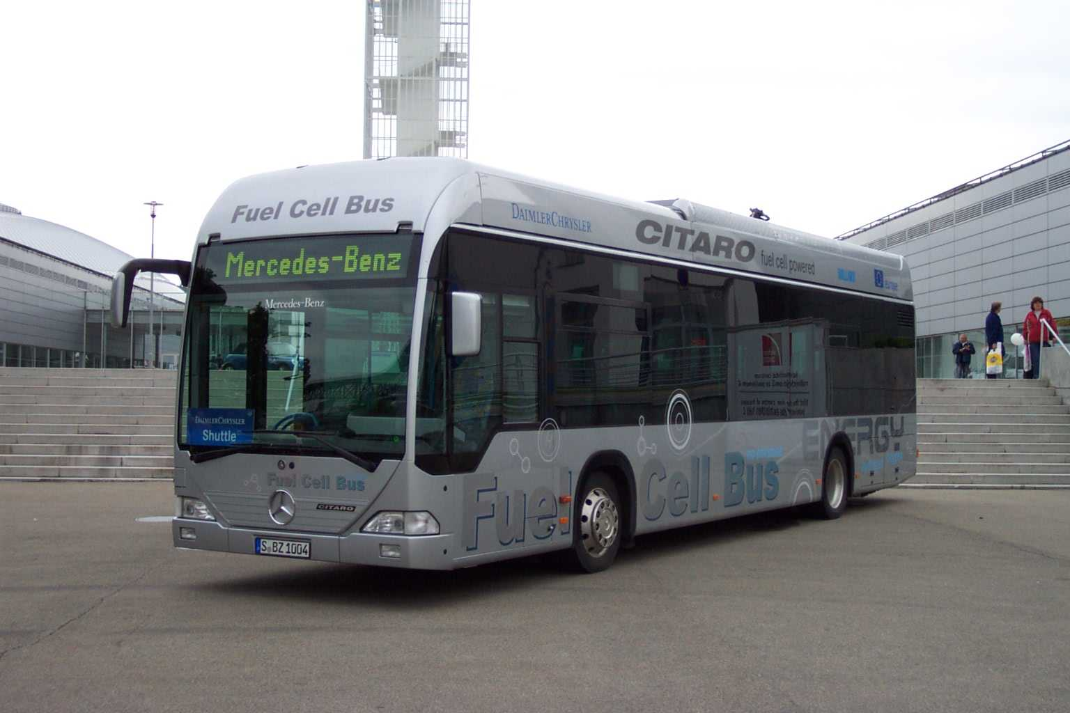 Bus type Mercedes Citaro at Autotec trade fair in Brno - Autobus typu Mercedes Citaro na veletrhu Autotec v Brně